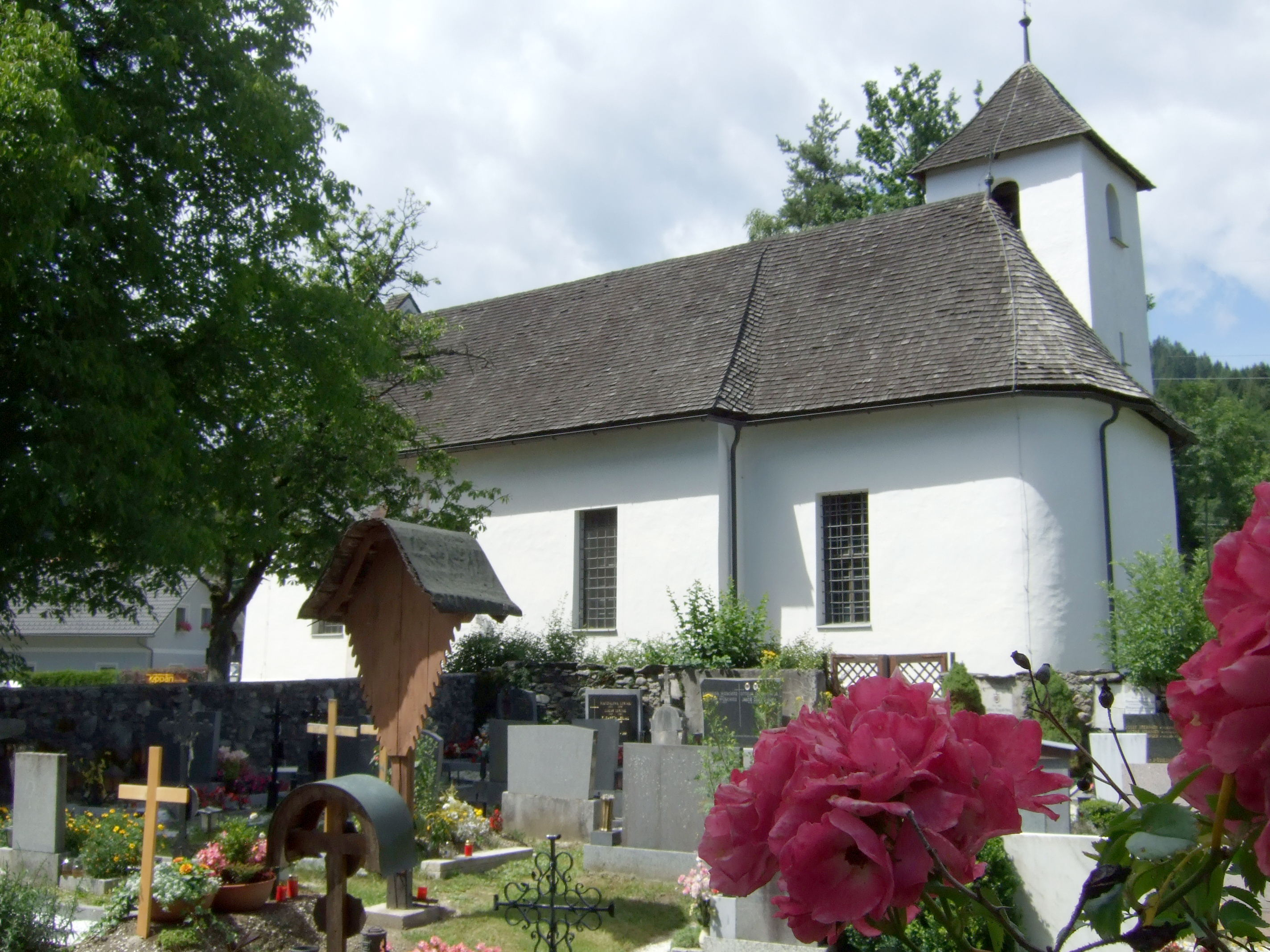 Subsidiary church Saint Vitus with cemetery at Ebenfeld, municipality Techelsberg, district Klagenfurt Land, Carinthia, Austria, EU